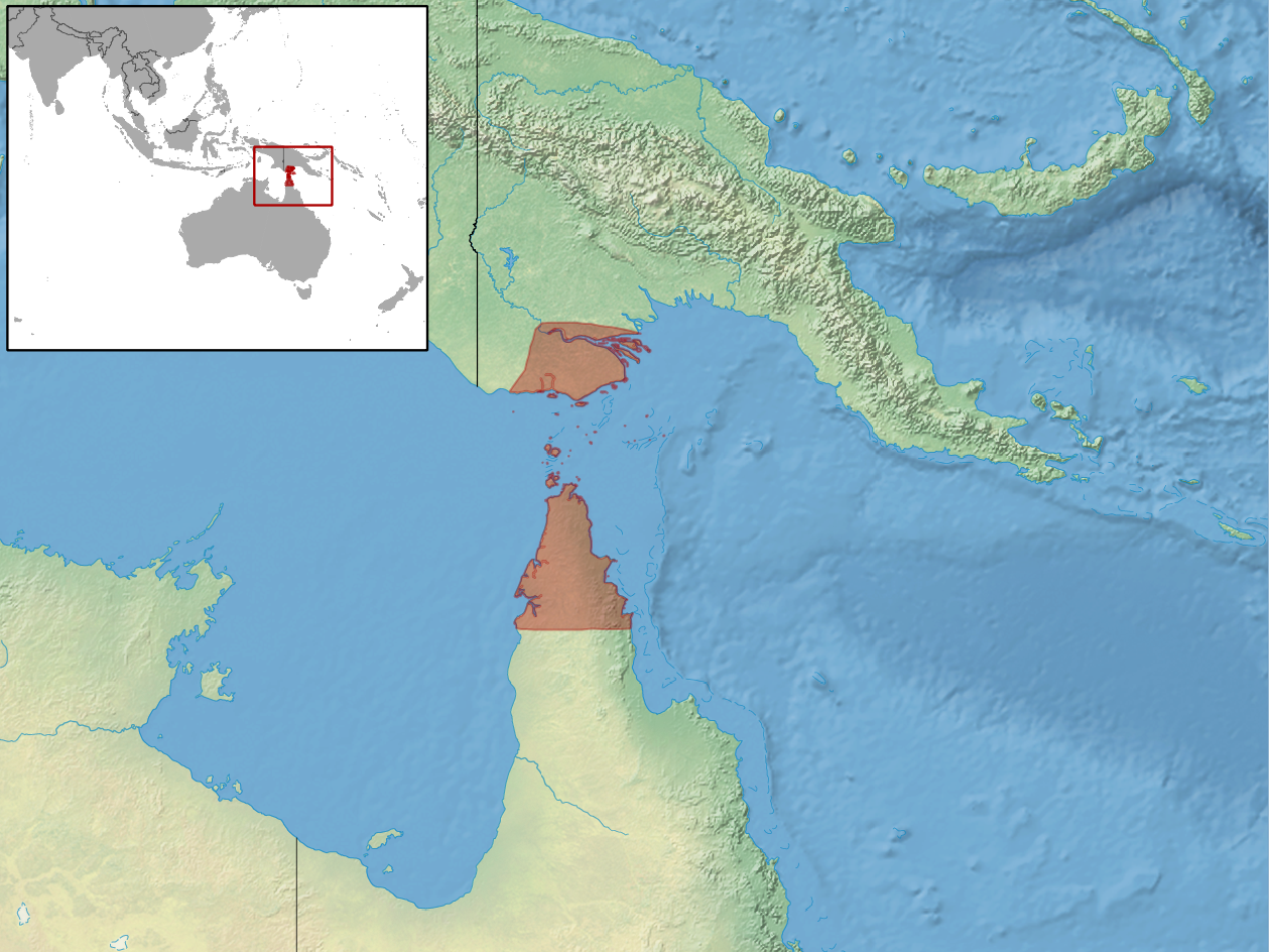 geographic distribution of Glaphyromorphus crassicaudus according to IUCN. The range according to RDB is limited to Queensland.